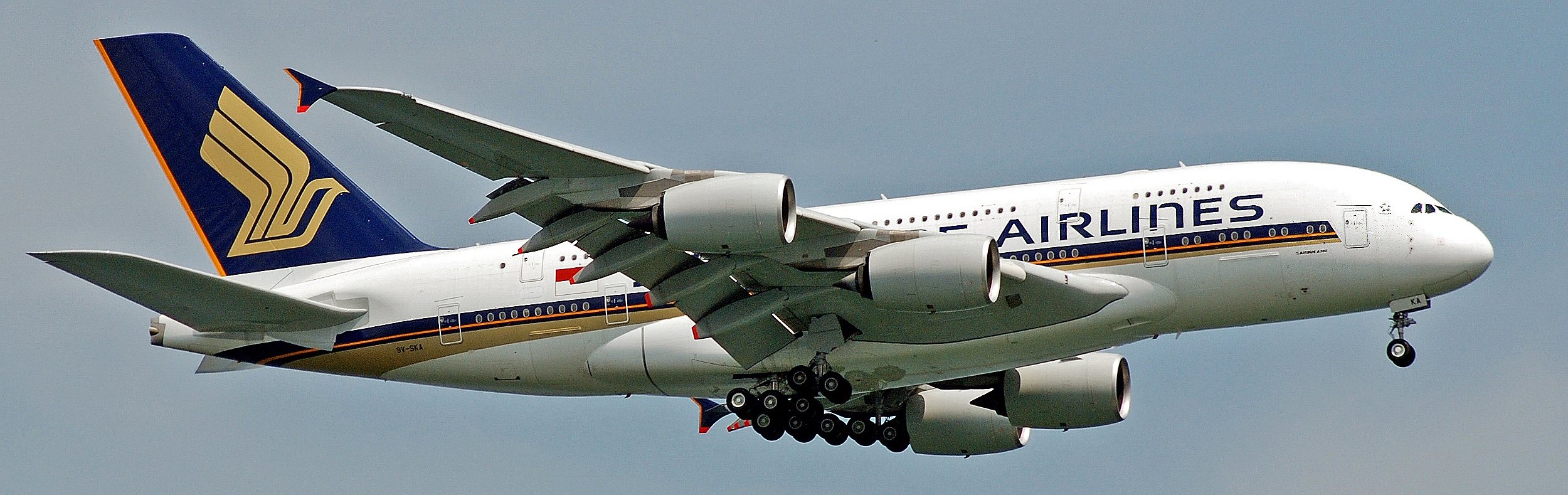 Singapore Airlines (SIA/SQ) Airbus A380 (9V-SKA) landing on 20C at Singapore Changi Airport. Taken with a Nikon D80 and AF 70-300 f/4-5.6G lens.